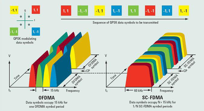 Comparison of how OFDMA and SC-FDMA transmit a sequence of QPSK Data Symbol